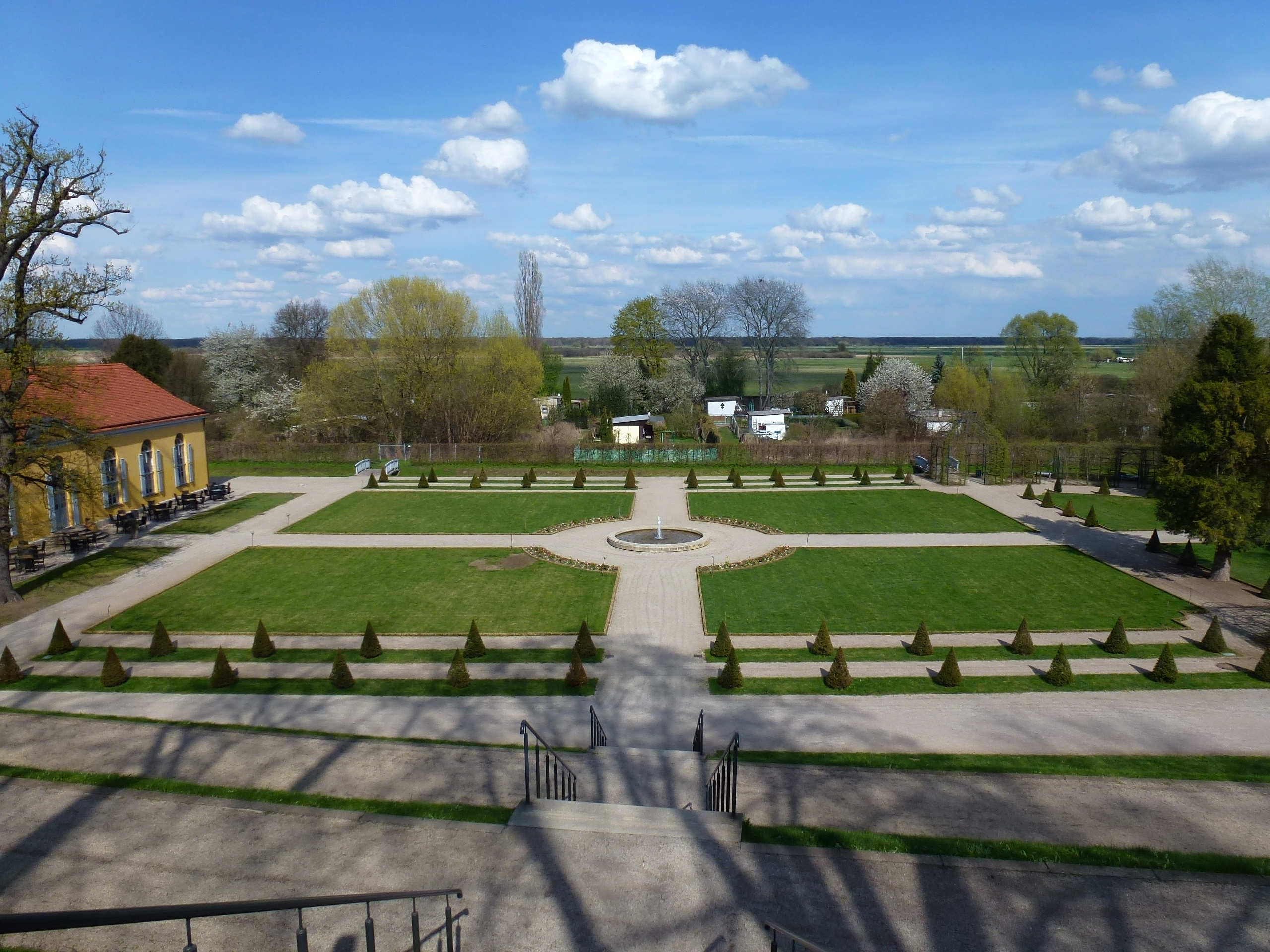 Kloster Neuzelle Klostergarten